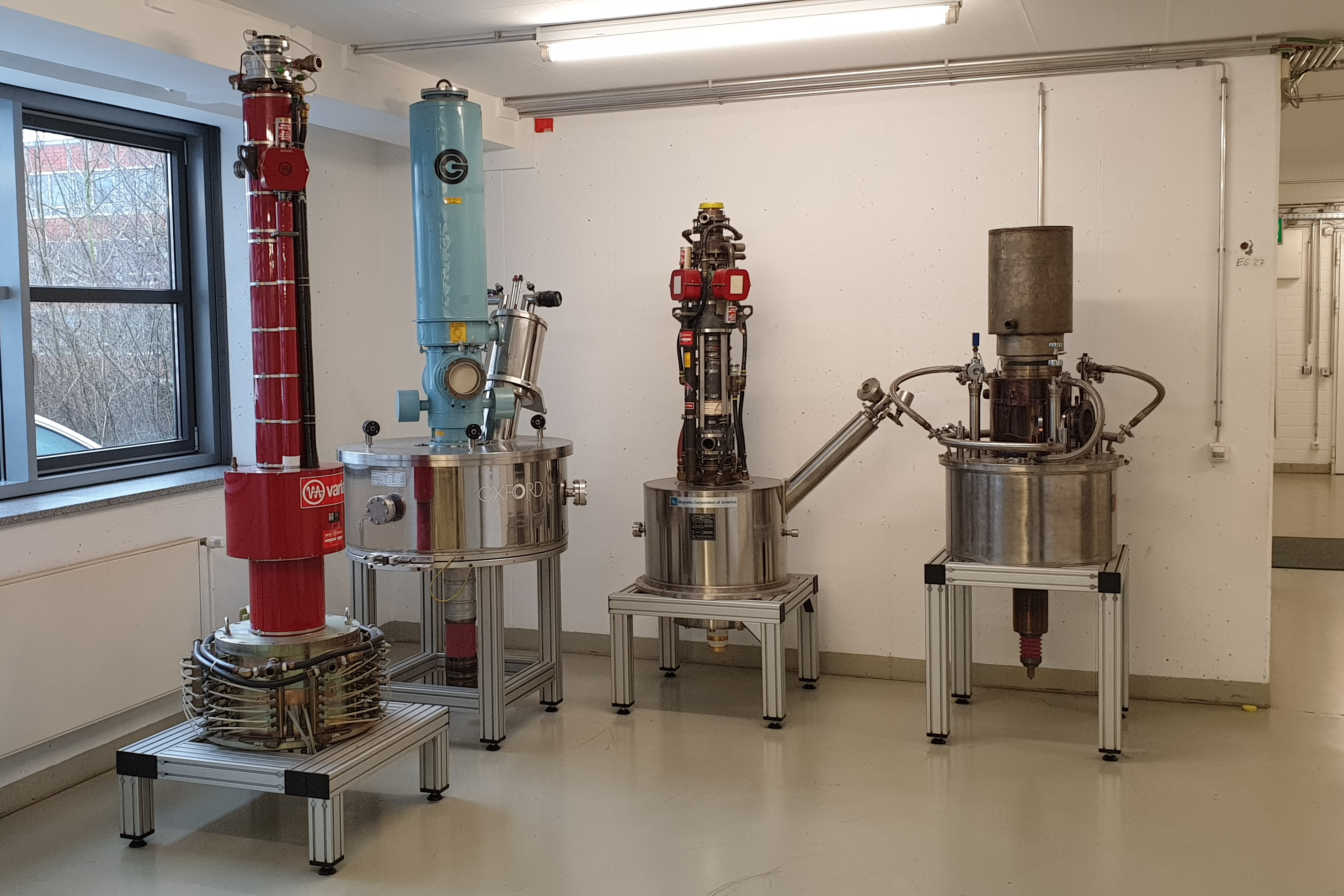 Collection of gyrotrons at the Max Planck institute of Plasma Physics in Greifswald.